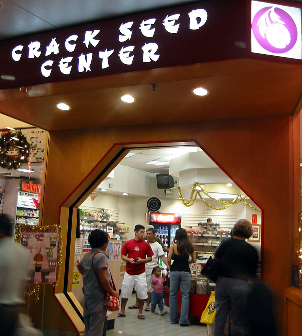 Ala Moana shopping center has Neiman Marcus, Hermes, and, well... it's kind of like Aji Ichiban.